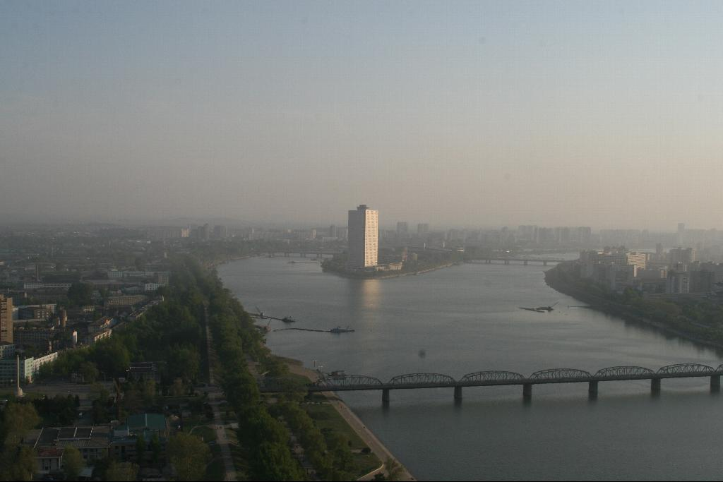 Looking back at our Hotel from the top of the Juche idea tower, Pyongyang, North Korea.